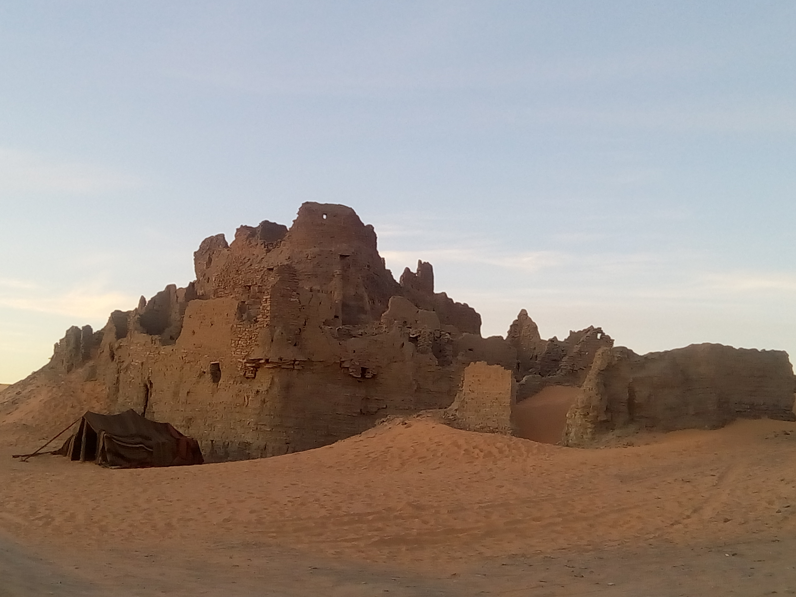 Aghlad ksar, Timimoun District, Algeria